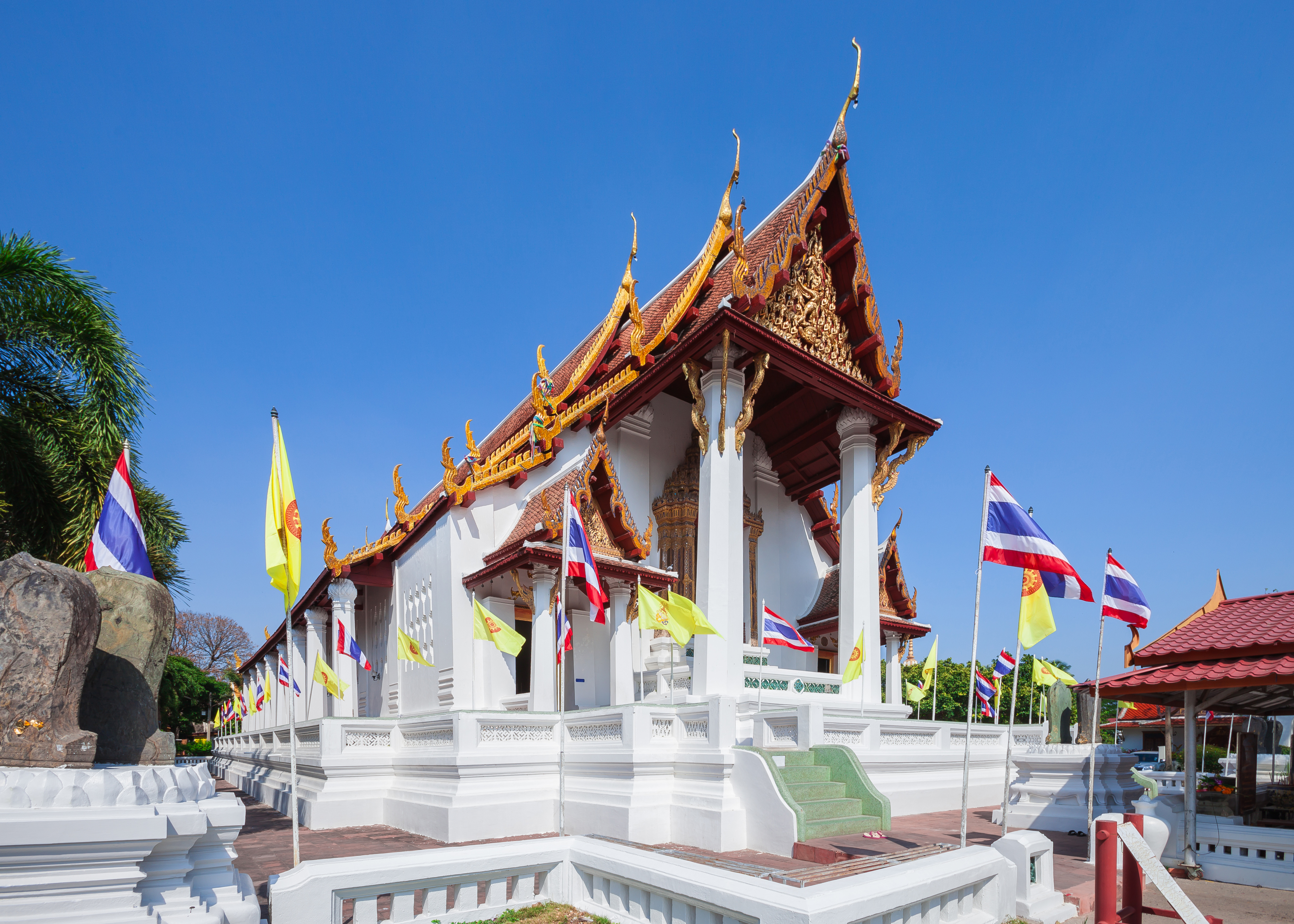 Ubosot of Wat Na Phra Men, Phra Nakhon Si Ayutthaya District, Phra Nakhon Si Ayutthaya Province, Thailand.